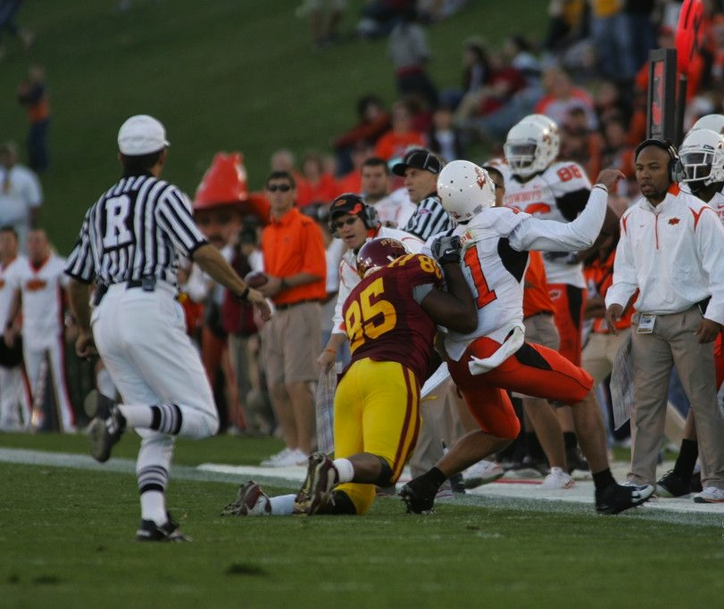 A photograph of a football player bringing another player down with a "horse-collar tackle." The original image had a website logo in the lower right corner; I have cropped the image to remove the watermark.